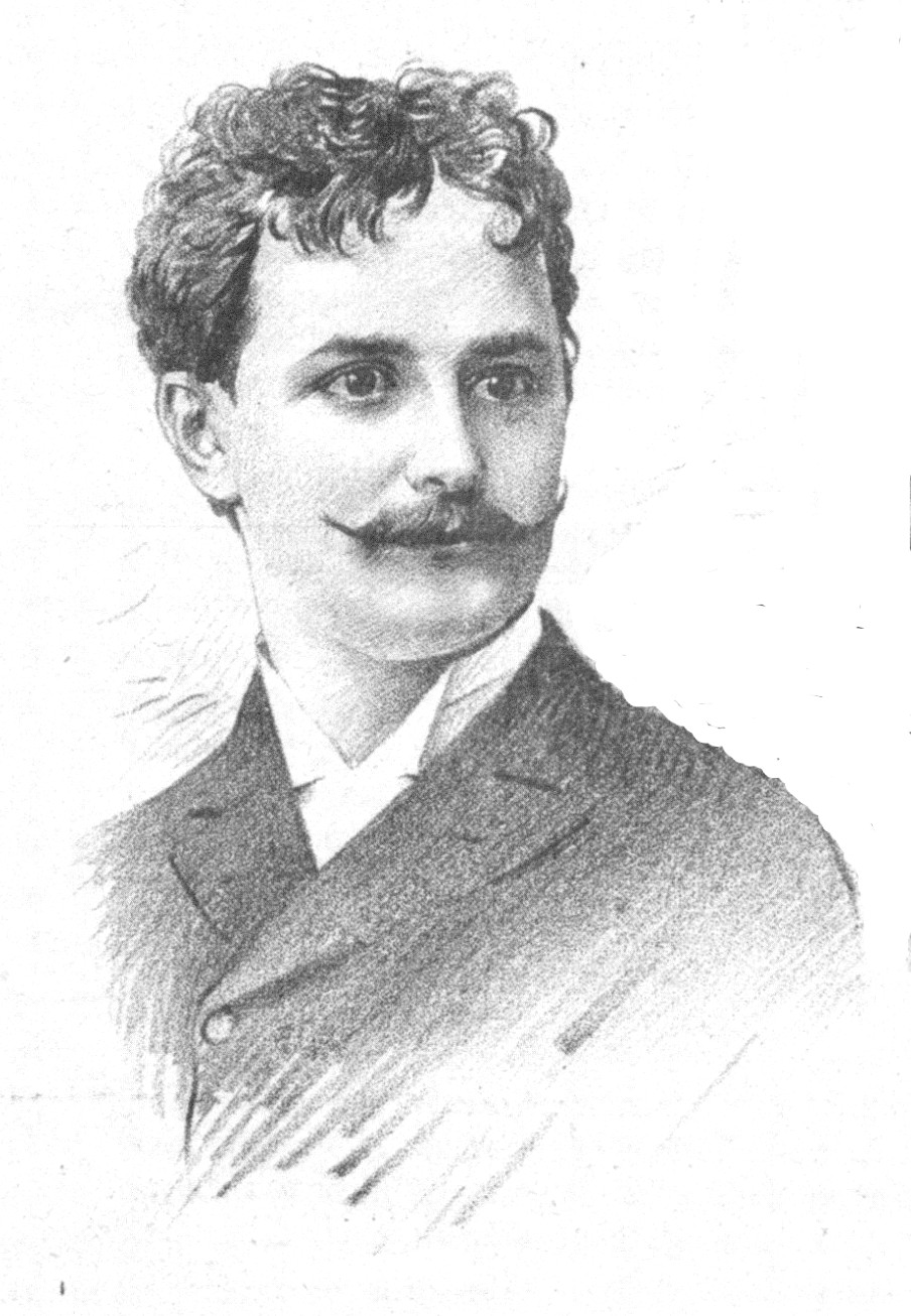 Portrait of Josef Klein (1862-1927), Austrian actor. Cropped from a gallery of members of Raimund Theater in Vienna.